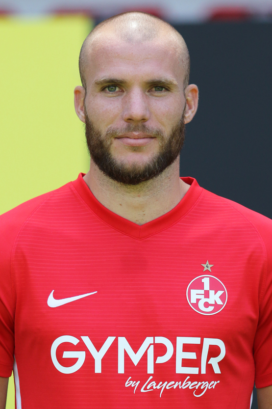 Manfred Starke (Nr. 6)